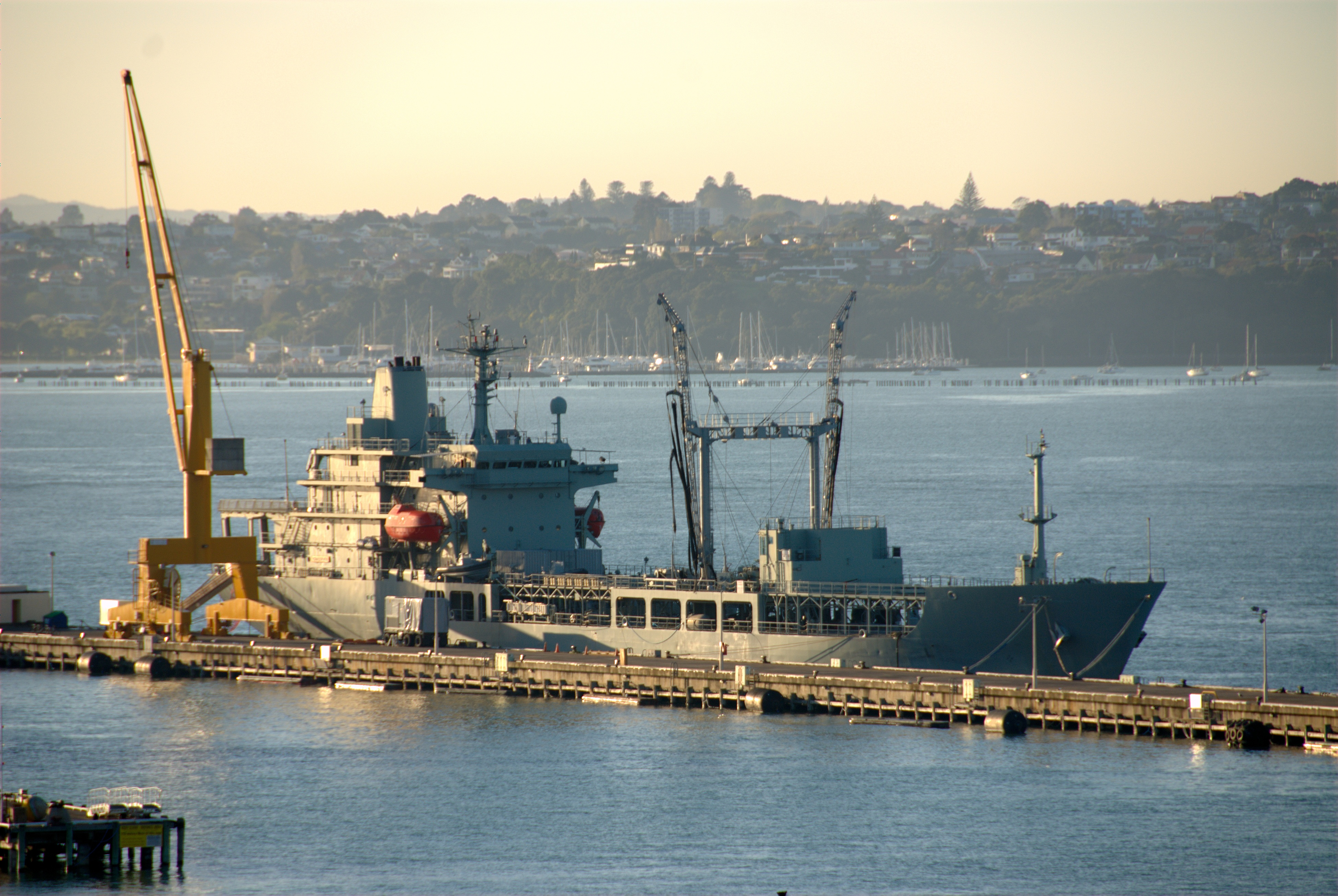 HMNZS Endeavour (A11) at Devonport Naval Base in Auckland